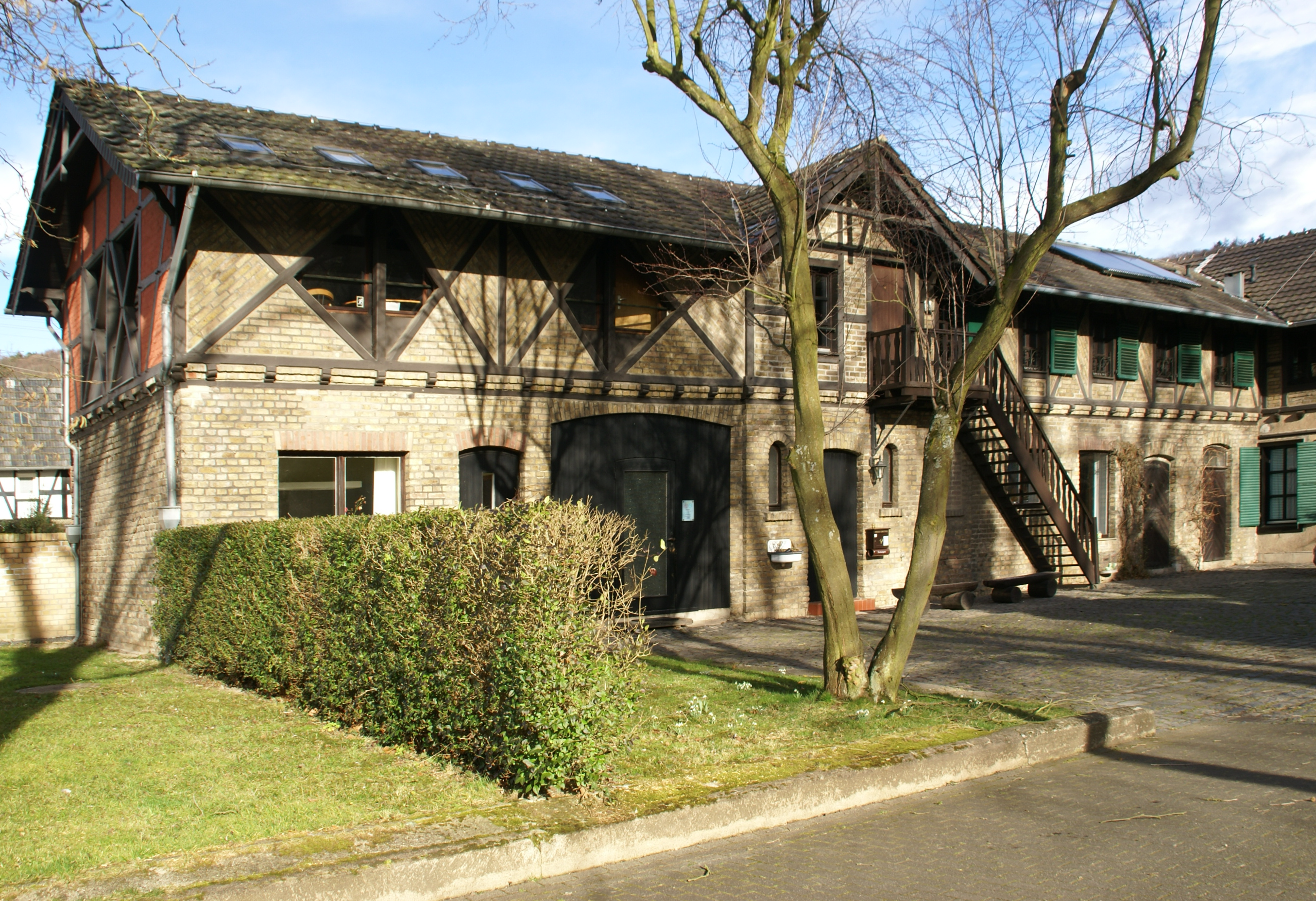 Partial view of the estate Malteserhof in Römlinghoven, Malteserstraße 52